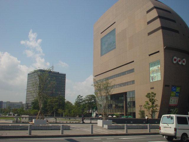 Kitakyushu City Hall and Riverwalk Kitakyushu's NHK building Taken by Ian Ruxton (Historian)